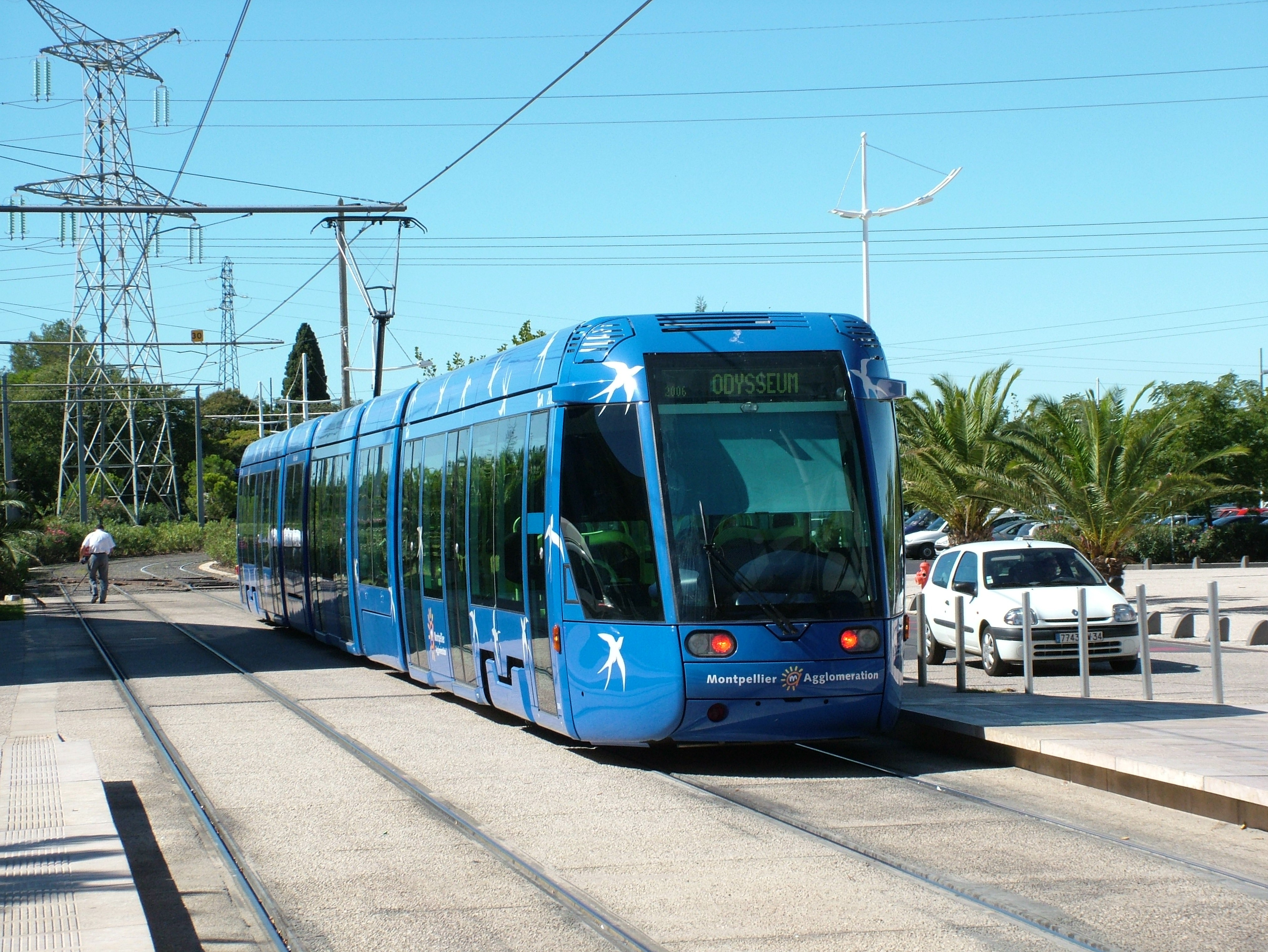 Montpellier's rapid transit/tramway